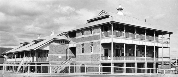 New Farm State School, additional story.